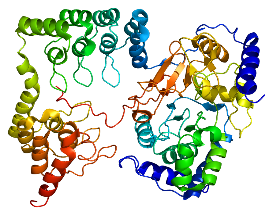 Structure of the PPP1R12A protein. Based on PyMOL rendering of PDB 1s70.